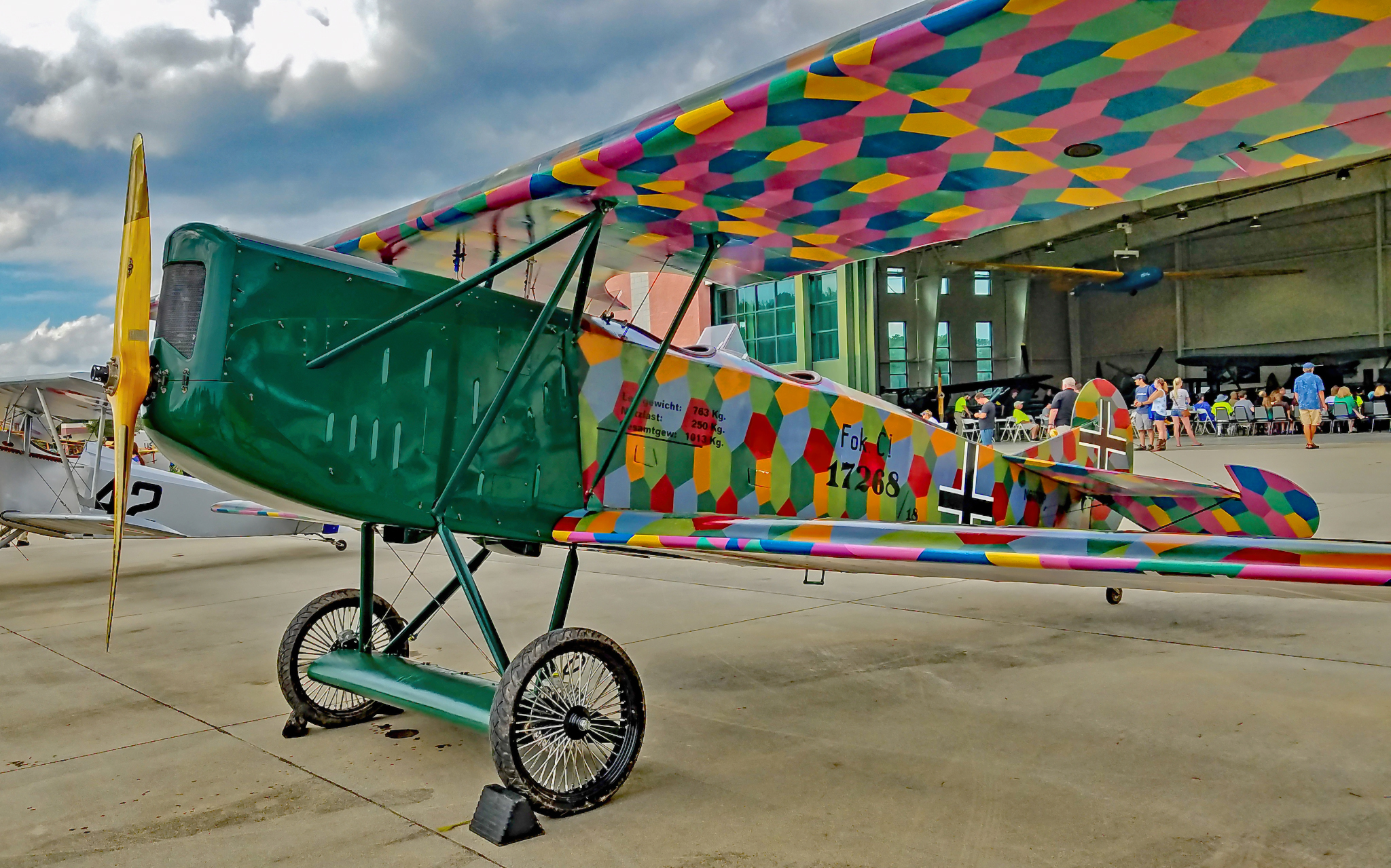 Military Aviation Museum Virginia Beach Airport (42VA) Monica E. Del Coro TDelCoro October 1, 2016